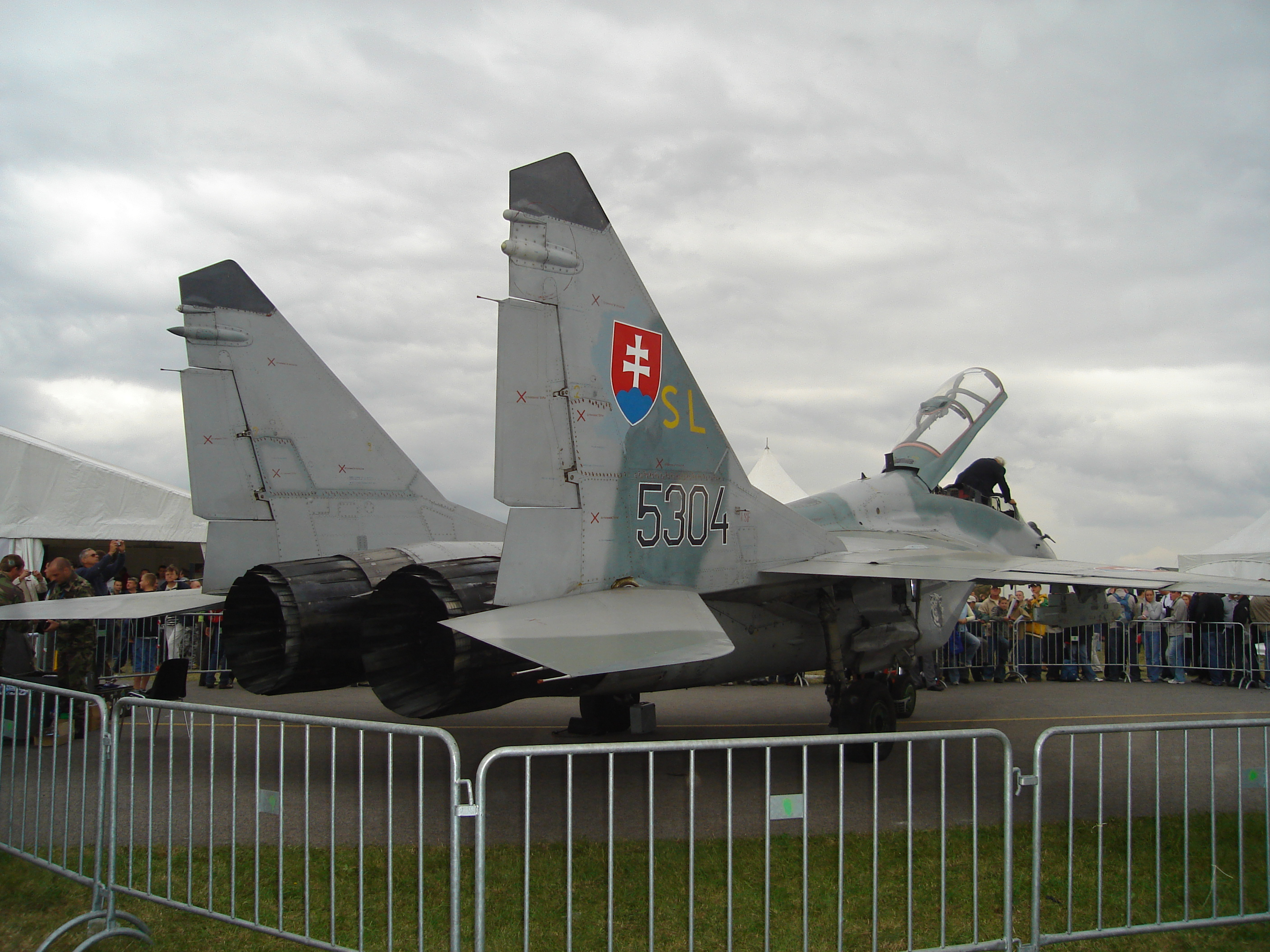 Picture of MiG-29, Radom Air Show 2007